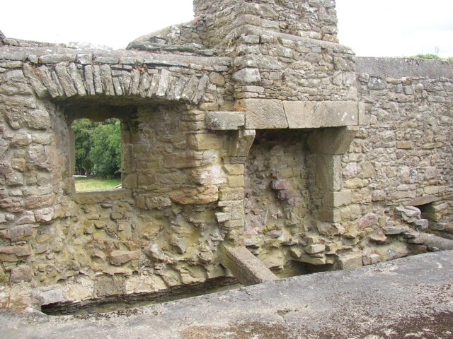 Interior of Aghaviller ruined church, Newmarket, Co. Kilkenny. The 15C tower over the chancel seems to have been used as a dwelling. The lintel of the fireplace is an interesting example of a 'flat arch', and the arch over the window is almost flat.